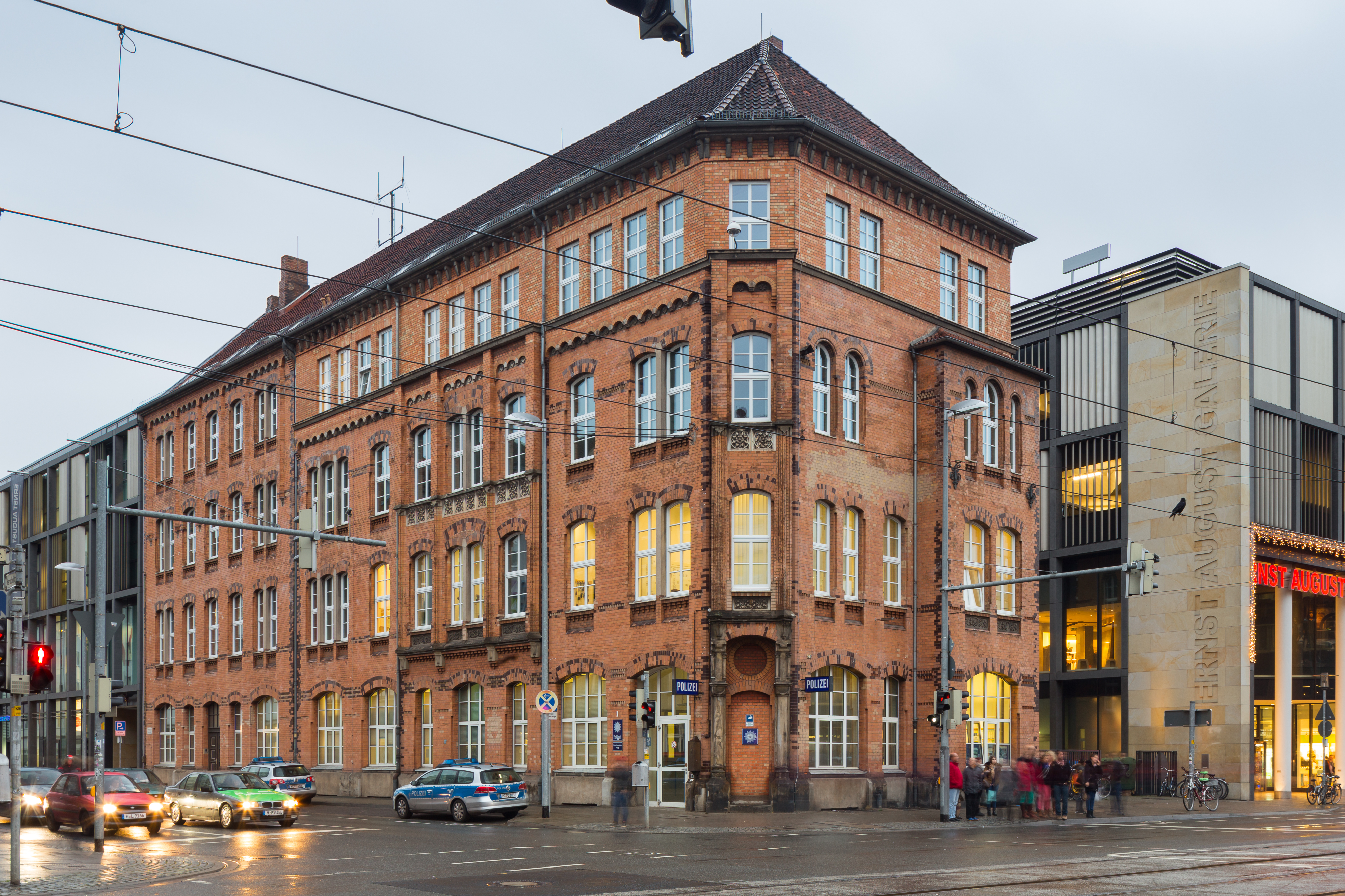 Neo-Gothic office building used by the police located at Herschelstrasse no.1 and Kurt-Schuhmacher-Strasse in Mitte district of Hannover, Germany.